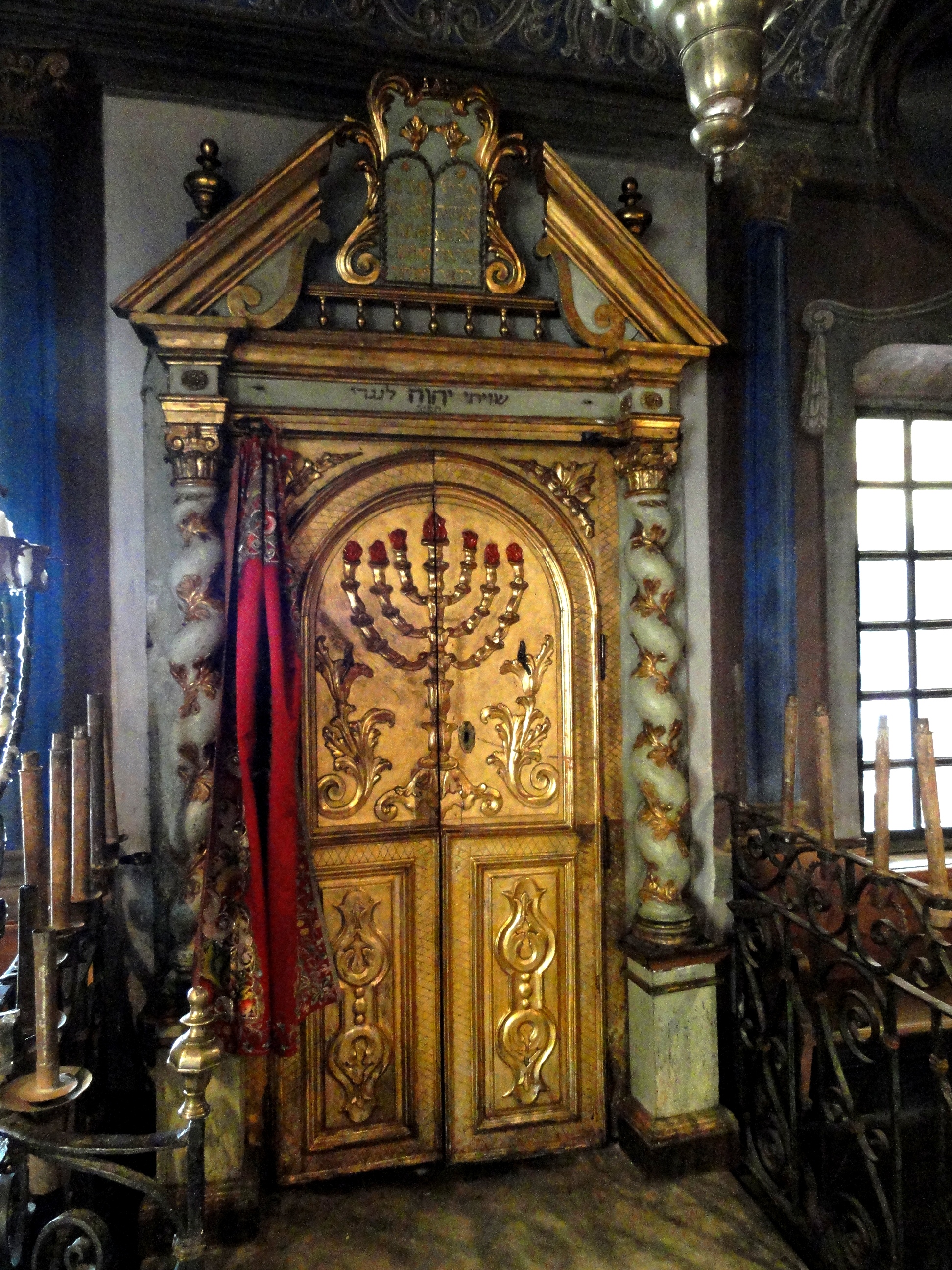 Synagogue of Mondovì (Piedmont, Italy): The Torah Ark